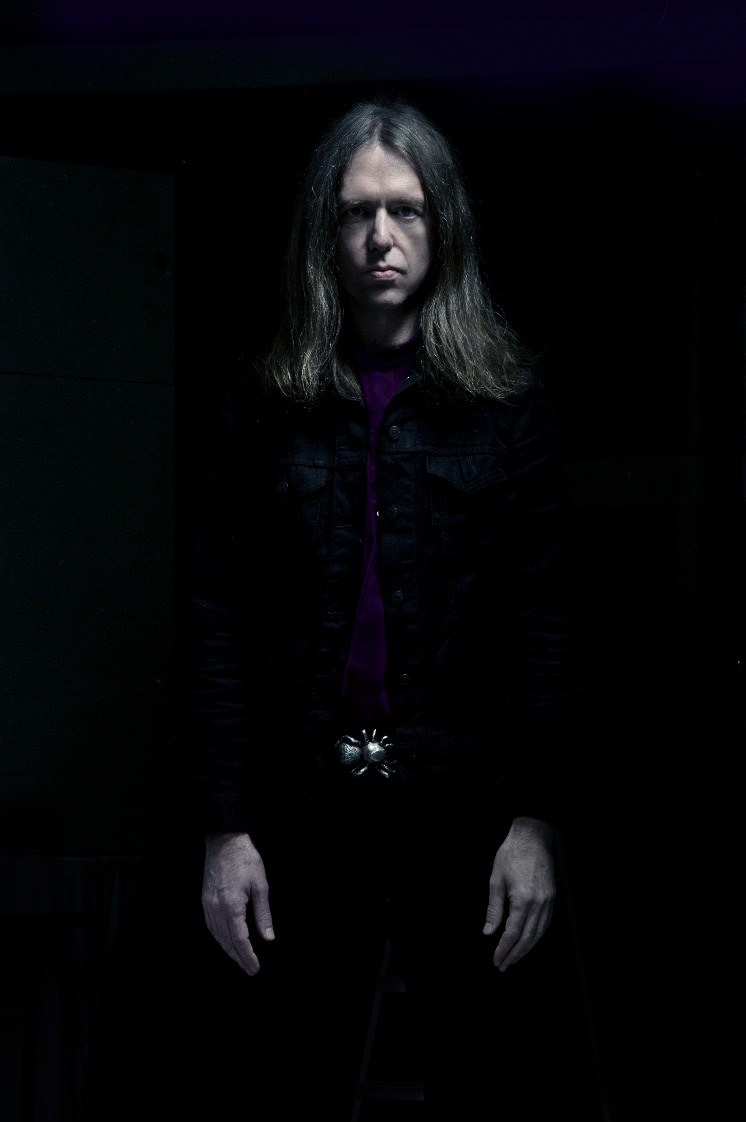 Lee Dorrian